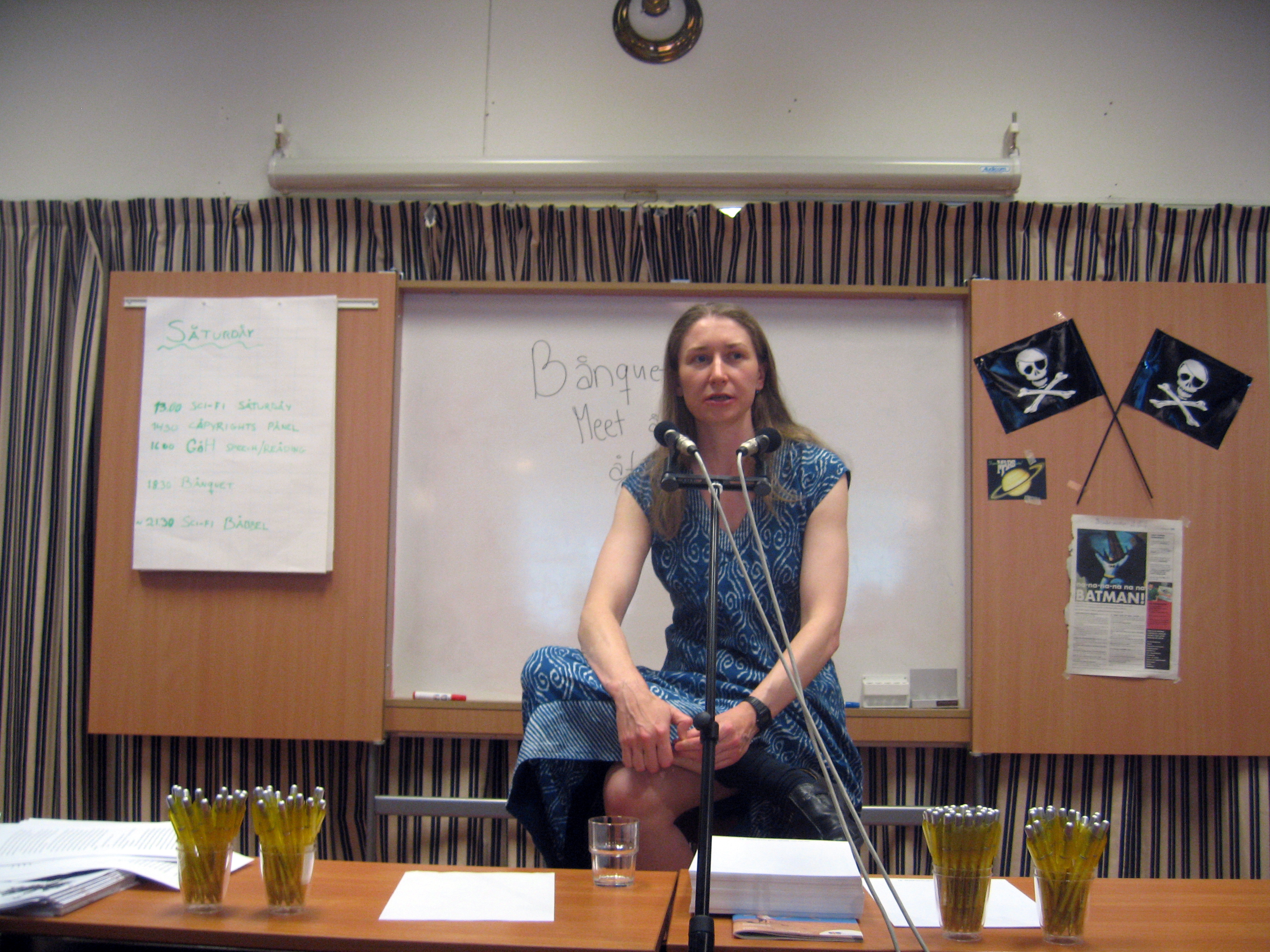 Steph Swainston at Åcon 2009.